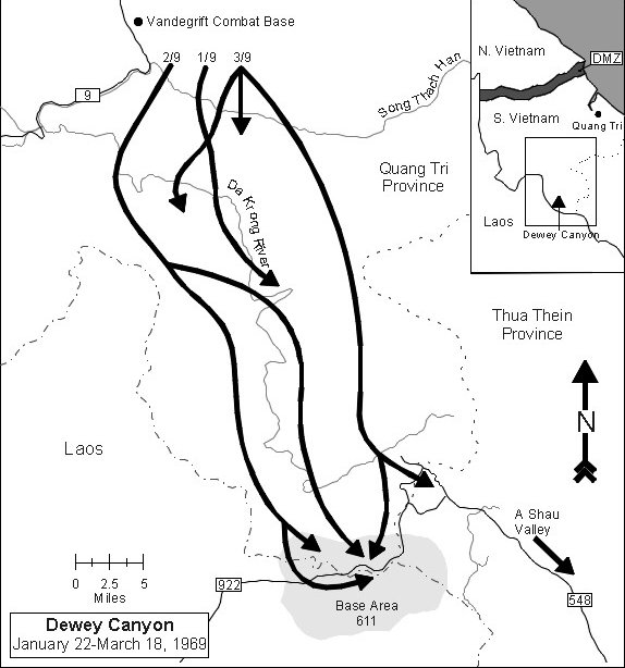 Map of Operation Dewey Canyon, January - March 1969, Vietnam